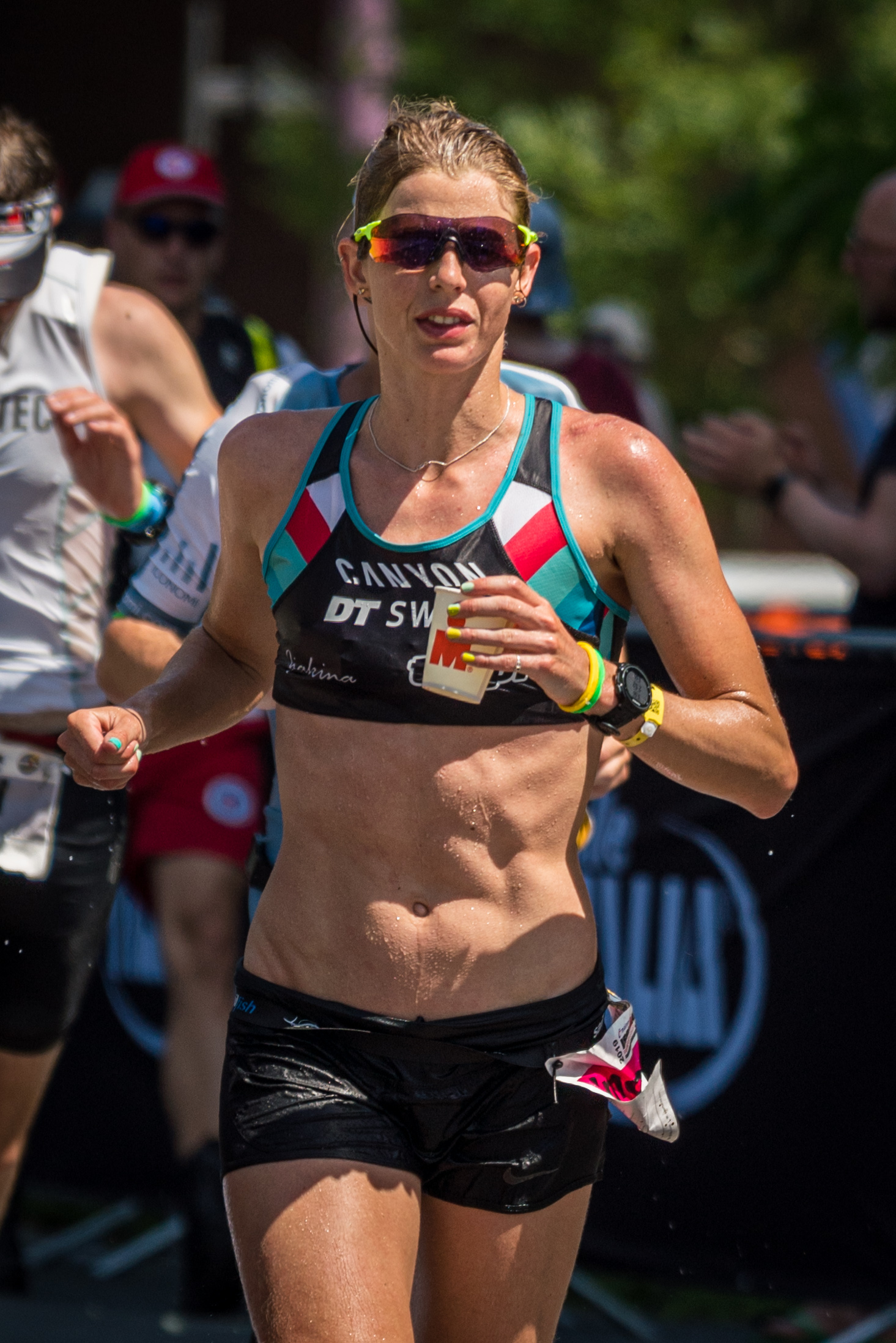 Second female Imogen Simmonds at the 2019 Ironman European Championship in Frankfurt am Main (Germany).